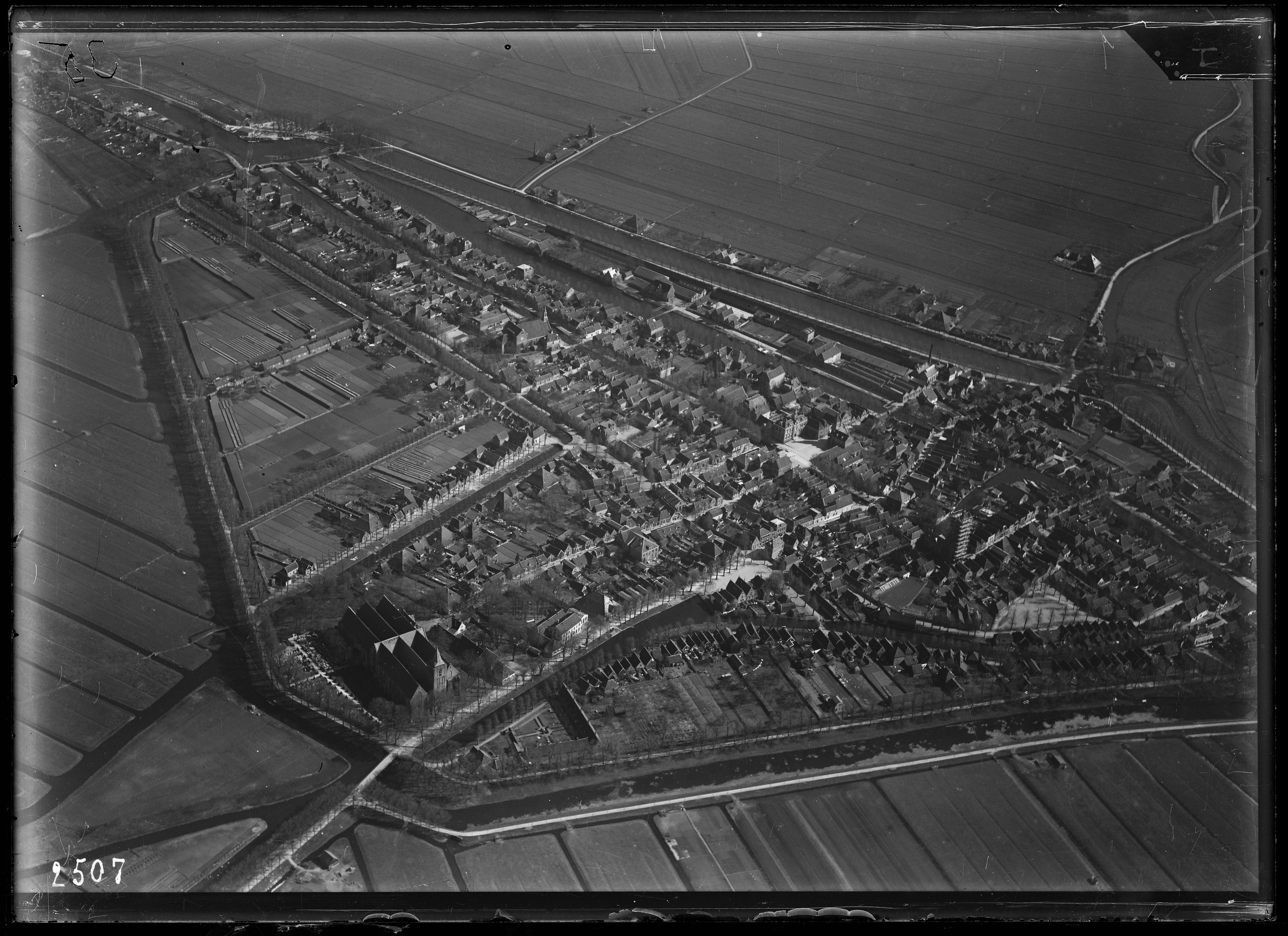 Aerial photograph of Edam, The Netherlands